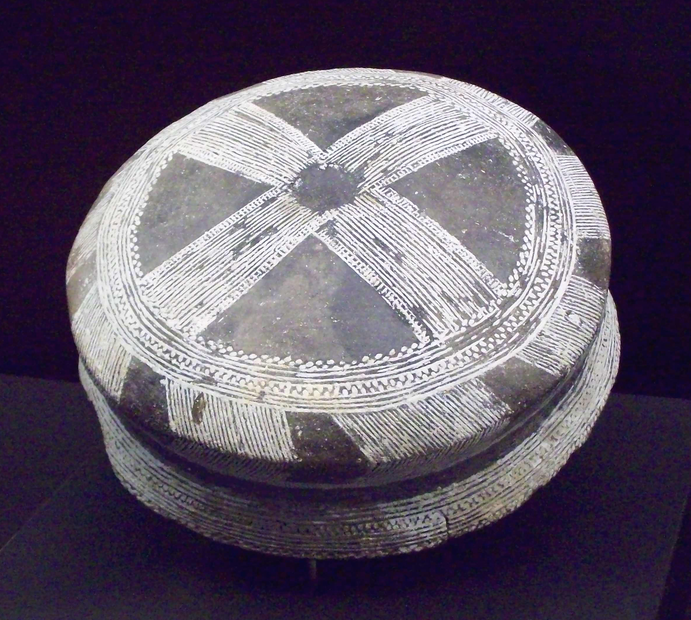 A Prehistoric earthenware pot from a funerary equipment, part of a beaker-culture pottery group dated in the early Bronze Age.